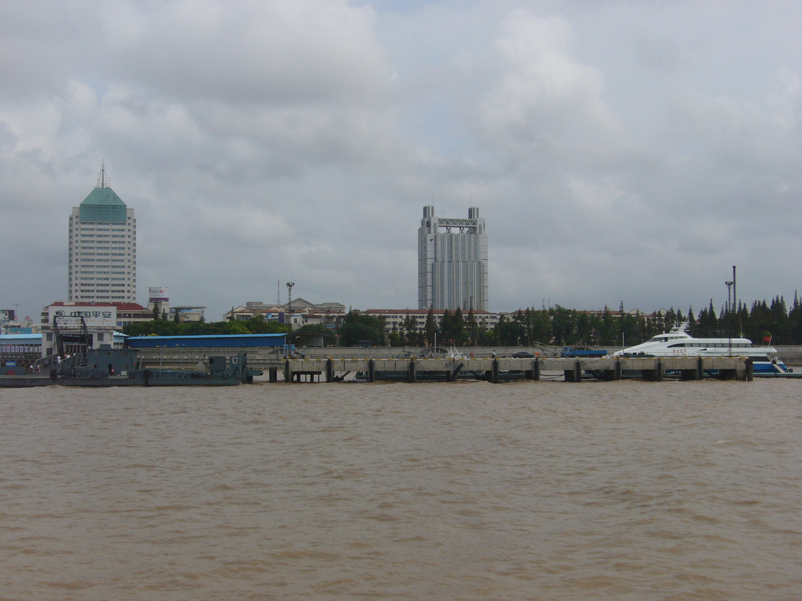 Picture of the city of Nanmen on Chongming Island, Shanghai, in China